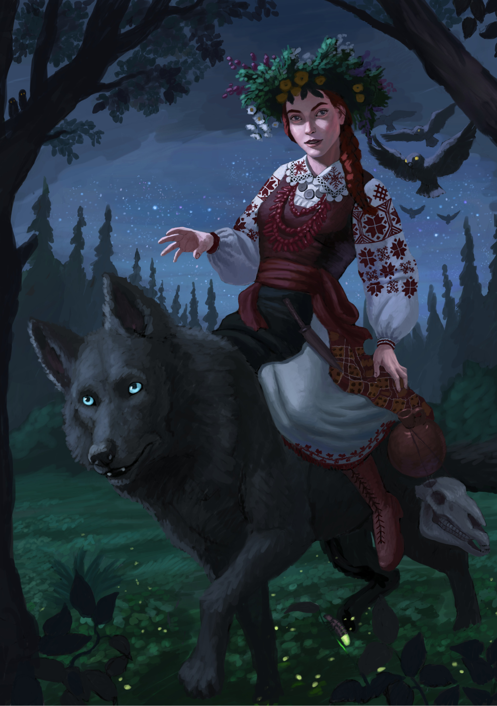 The witch in the Belarusian mythology